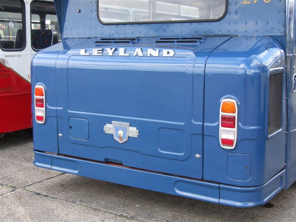 That is aparently what the engine cover on this rear engined "Atlantean" bus is called. Rather appropriate that a bus should have a bustle! Certain members of my family referred to these buses as "Sillybuses" when they first appeared. When I first rode on one I thought it was the most wonderful thing in the world. But I was only 9! See where this picture was taken. [?]